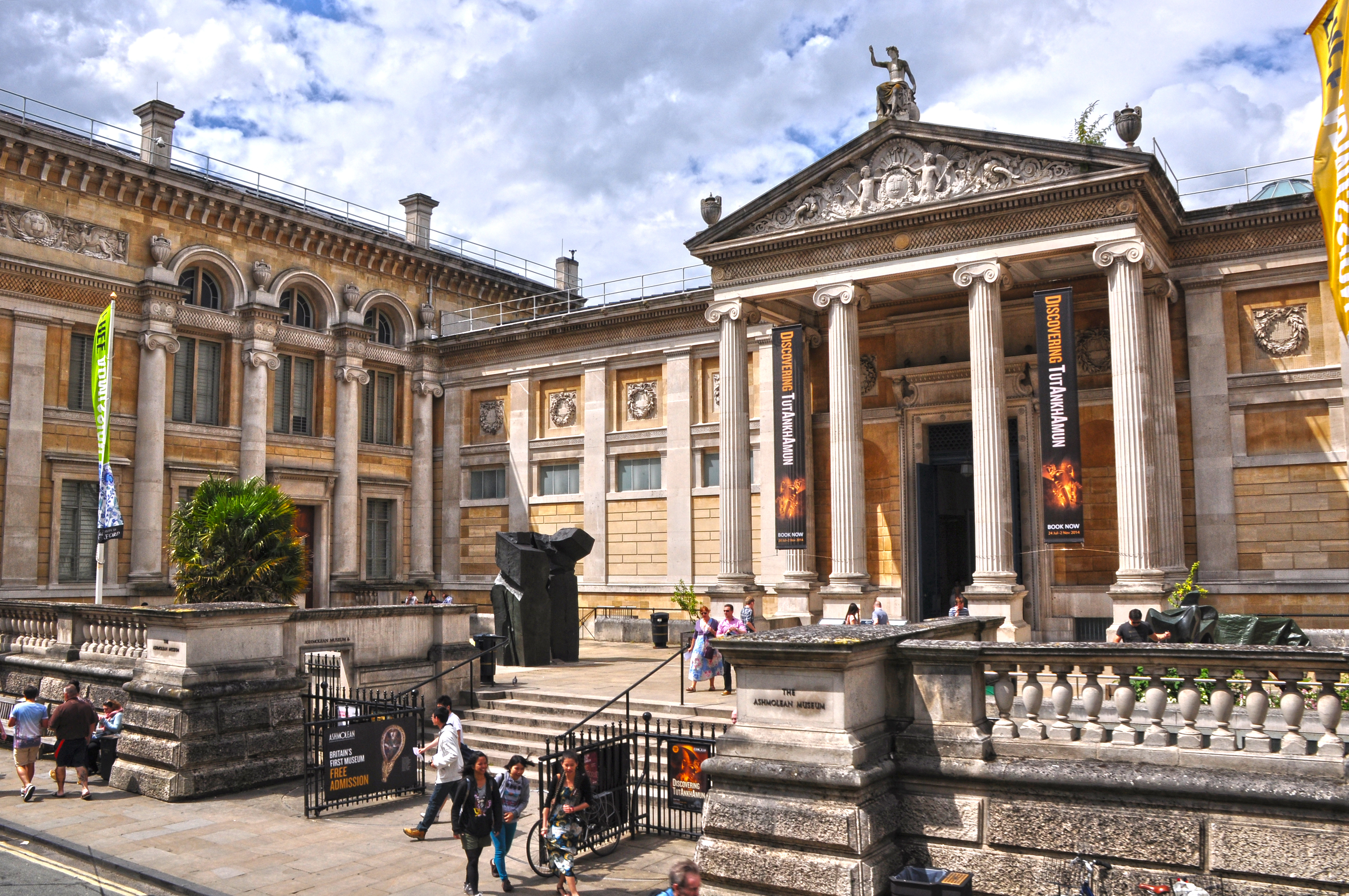 The Ashmolean Museum (in full the Ashmolean Museum of Art and Archaeology) on Beaumont Street, Oxford, England, is the world's first university museum. Its first building was built in 1678–1683 to house the cabinet of curiosities that Elias Ashmole gave to the University of Oxford in 1677. The museum reopened in 2009 after a major redevelopment. In November 2011 new galleries focusing on Egypt and Nubia were also unveiled.